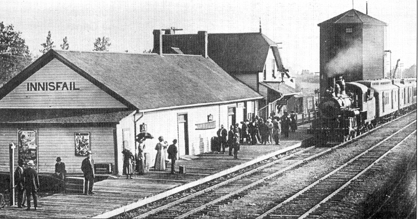 Innisfail, Alberta railway station in the 1890s.